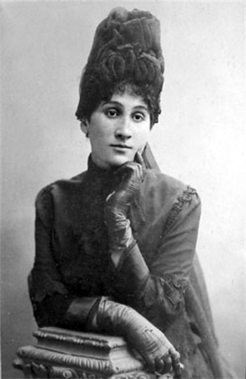 Ukrainian stage actress Maria Zankovetska.